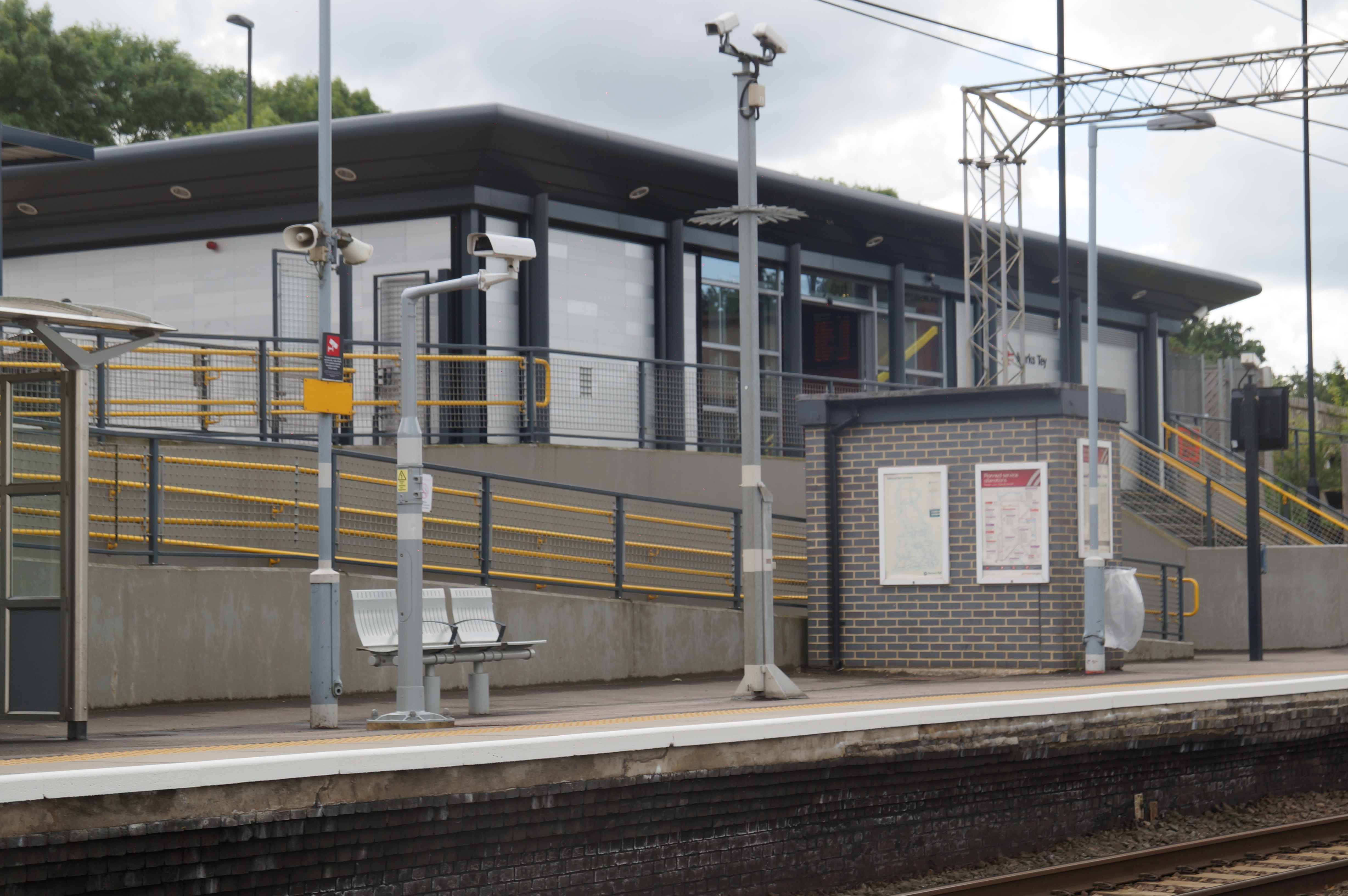 The new and modern station building at Marks Tey railway station, Essex. Built in the late 00s/early 10s to make the experience of using this railway station more enjoyable.